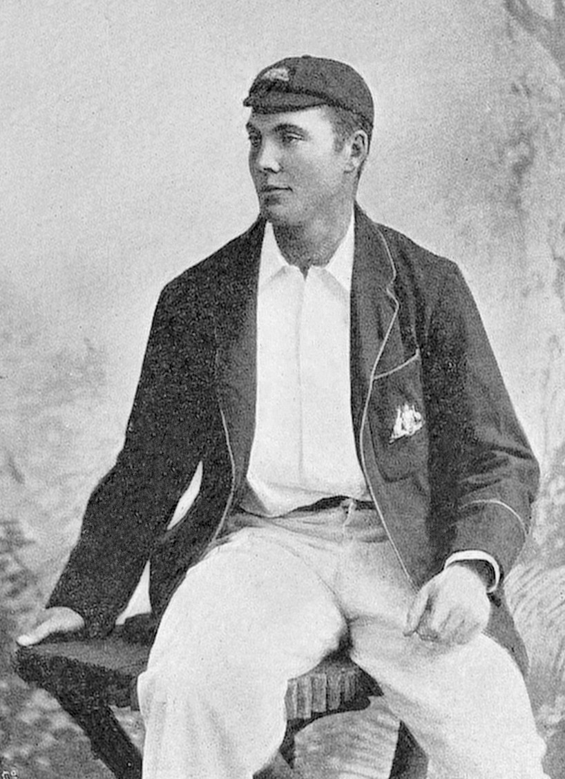 Scan of cricketer Charles Eady